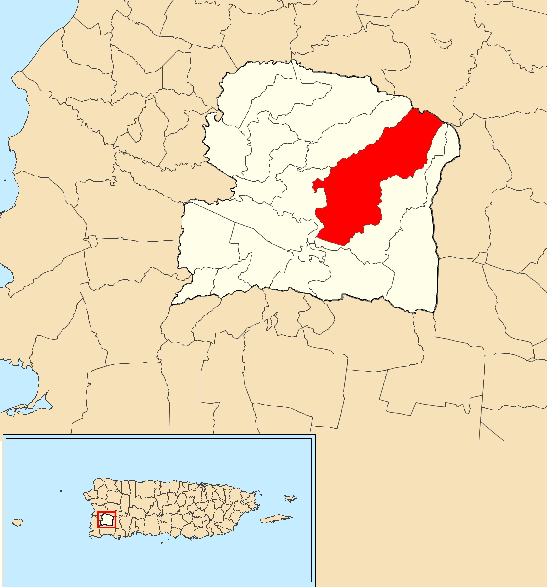 Caín Alto, San Germán, Puerto Rico locator map